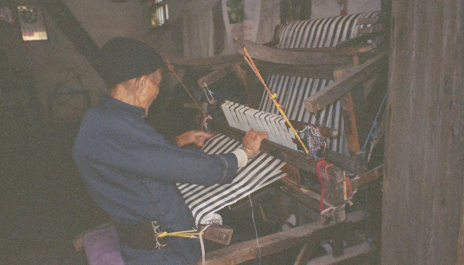 A ninety-year-old woman weaves in Gvangjsih Bouxcuengh Swcigih, China, who have labor intensive technologies at the local standard. Even old men have their role in their community. This picture was taken by TORIKAI Yukihiro, a Japanese economist, in 2006/09/12.